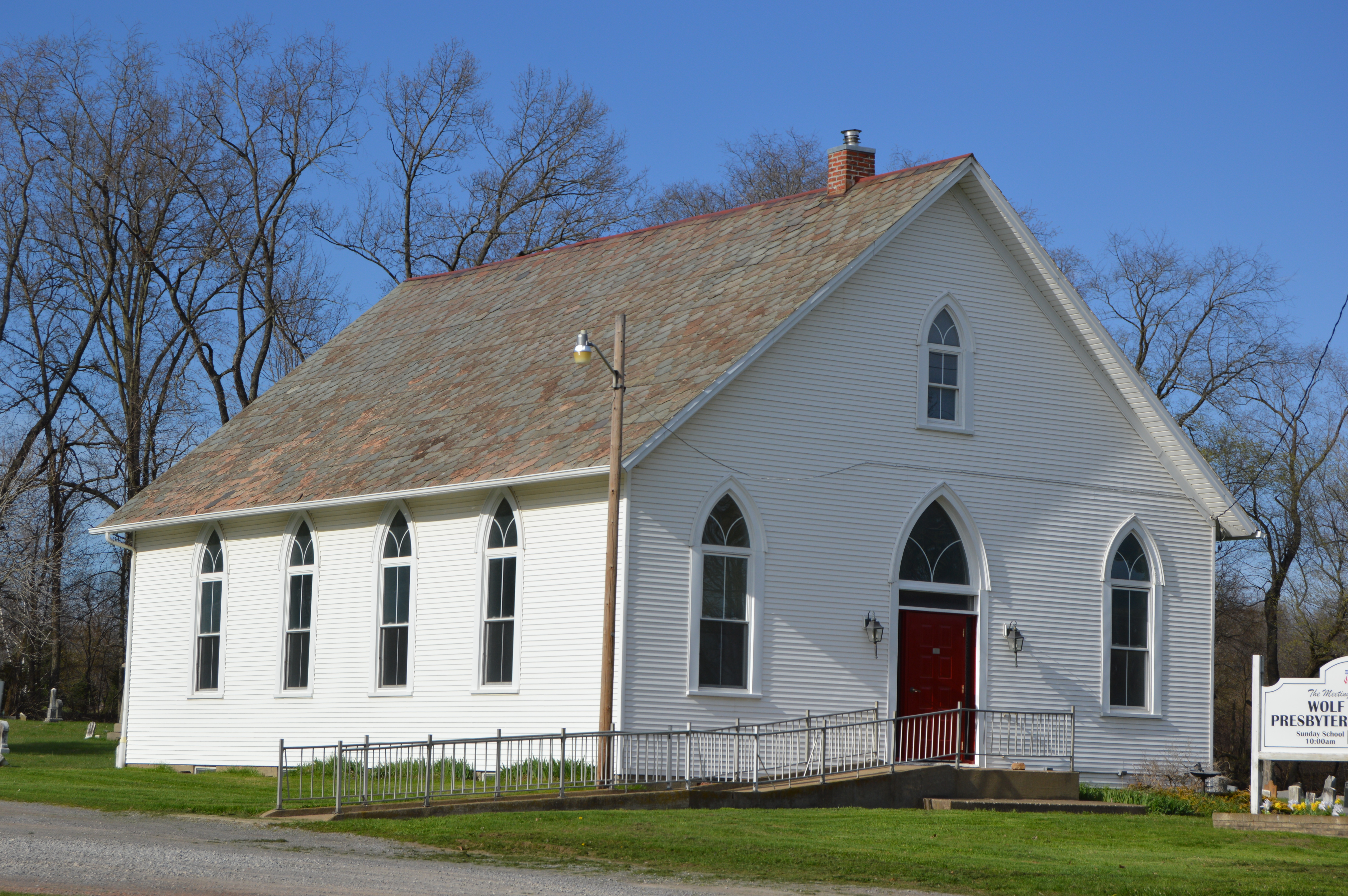 Western side and front of the Wolf Creek Presbyterian Church, located at 886 New Castle Road (Pennsylvania Route 108) west of Slippery Rock in Worth Township, Butler County, Pennsylvania, United States.